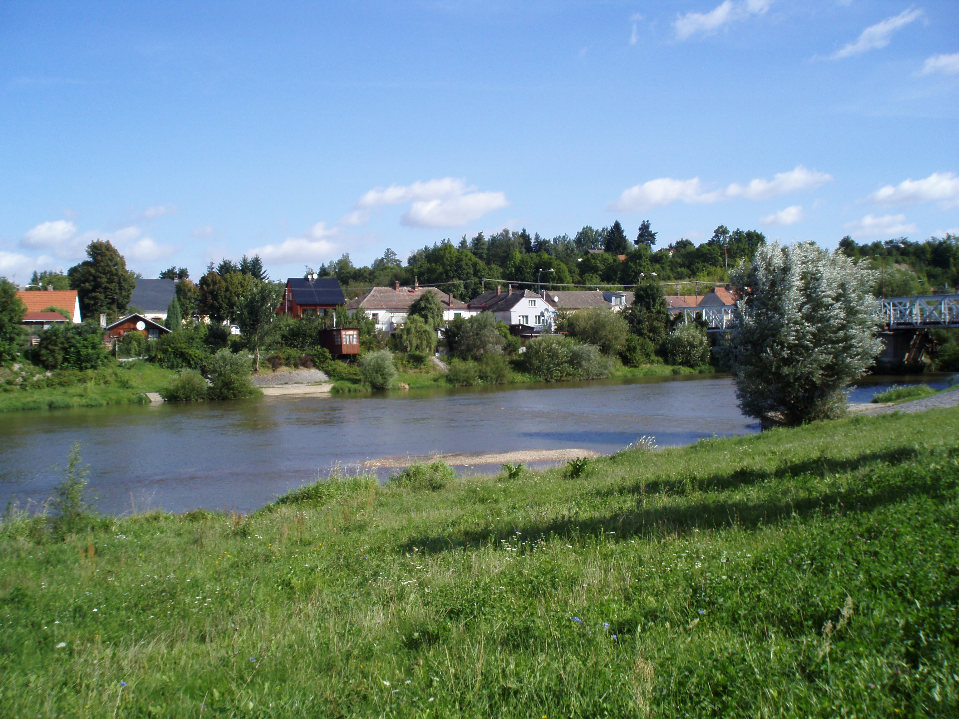 Svinárky, part of the Hradec Králové (Czechia)